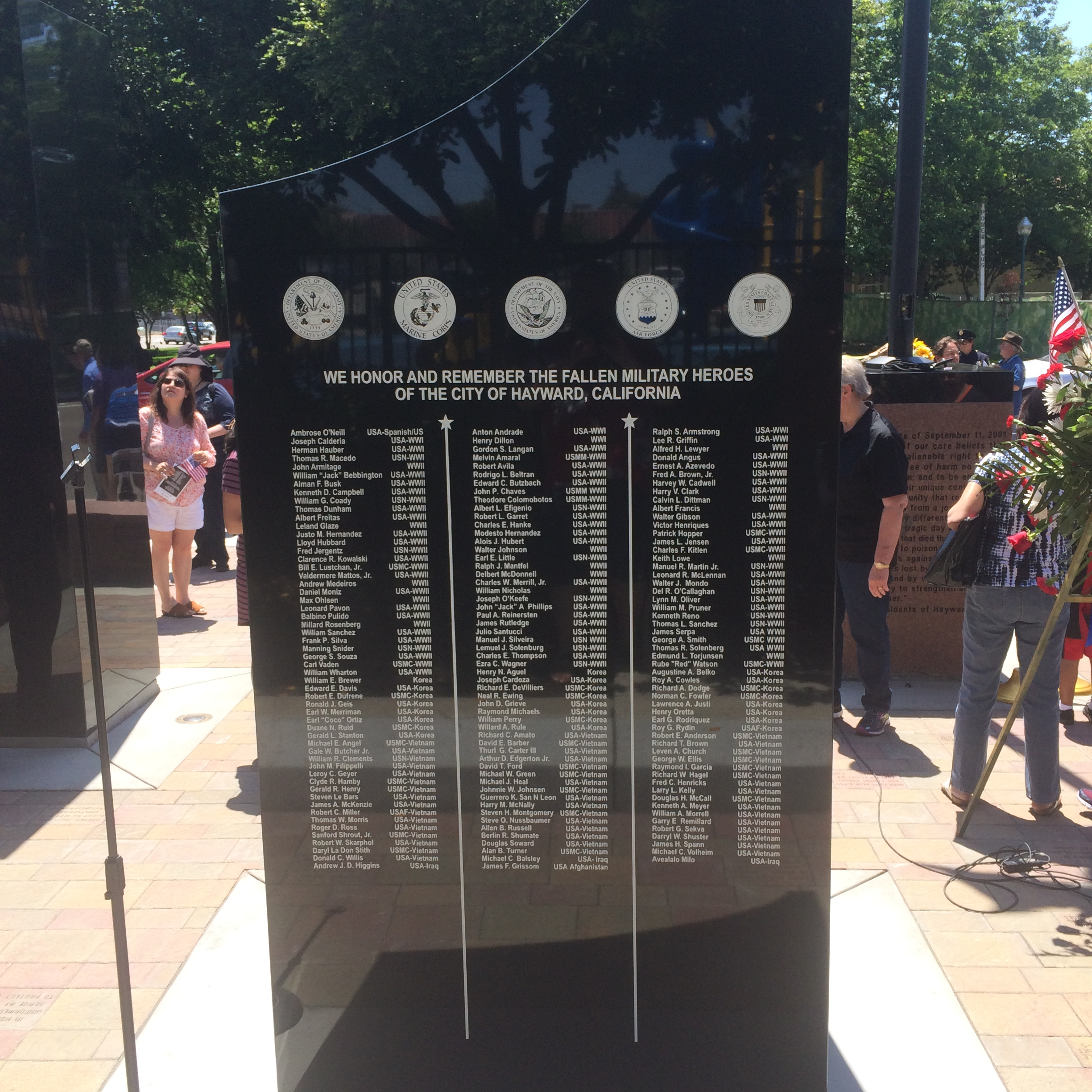 the obverse side of one of 5 black granite columns of the Hayward 9/11 memorial, showing fallen hayward soldiers from the spanish american war to the present. dedication ceremony, may 30, 2016, Hayward, California